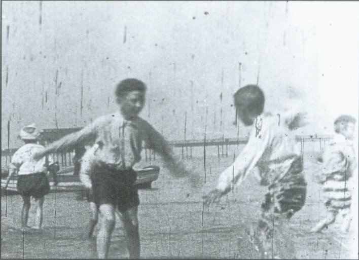 Early Victorian film footage shot by Arthur Cheetham of children playing on the beach in Rhyl, Wales.